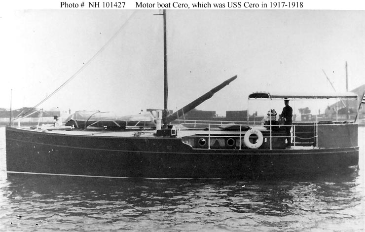 The private motorboat Cero sometime prior to her service as the United States Navy patrol vessel